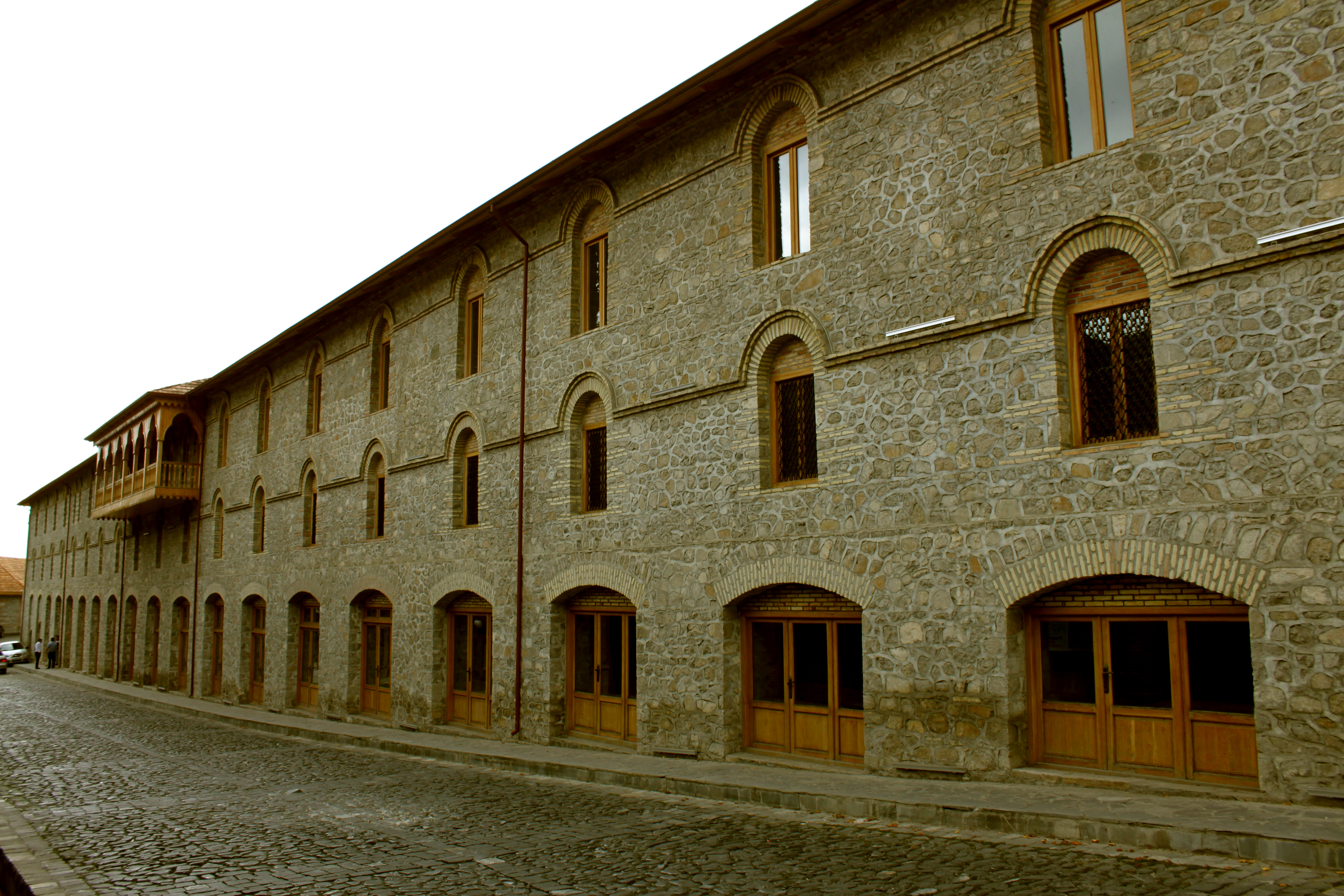 Ashagi kervansarai